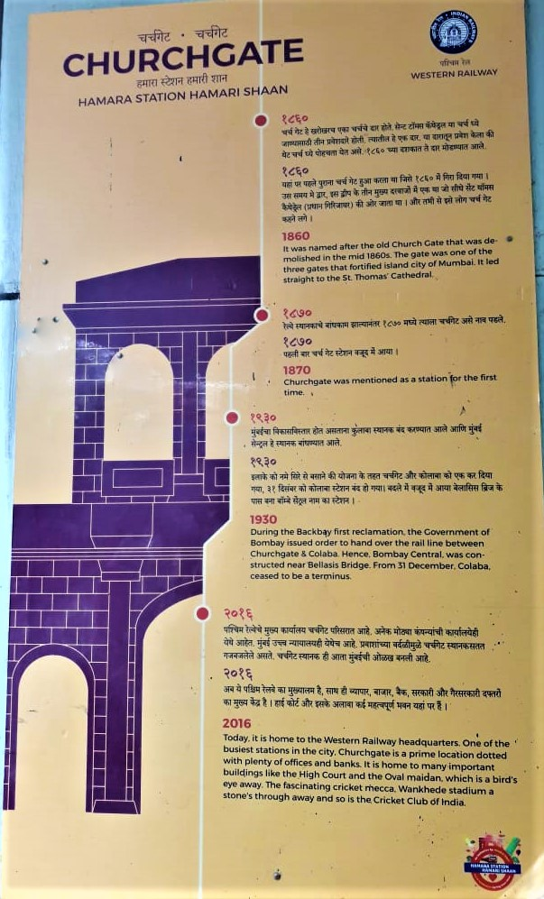 The Information Banner at Churchgate Railway Station, Mumbai, India.